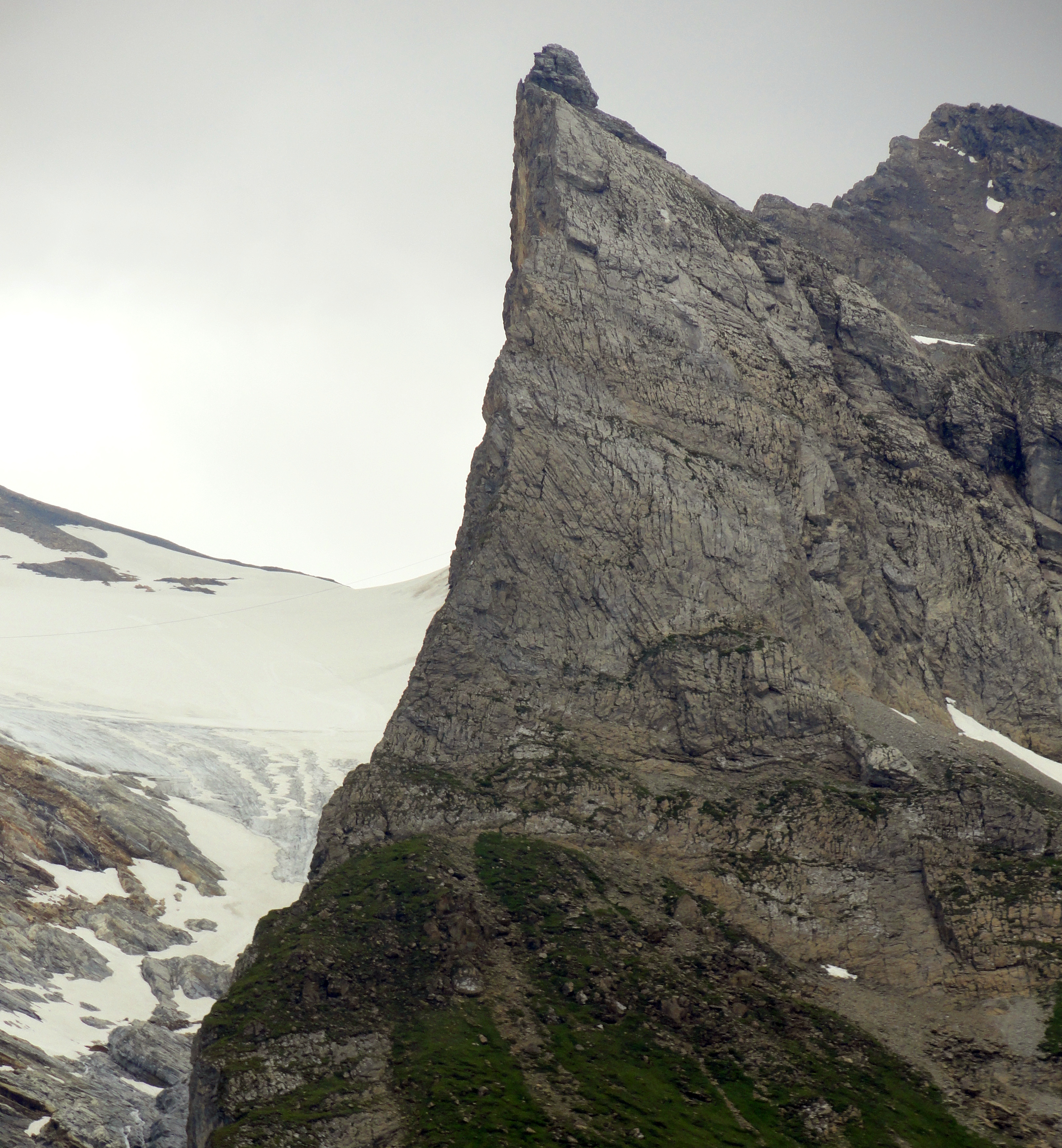 Lärmstange from NE